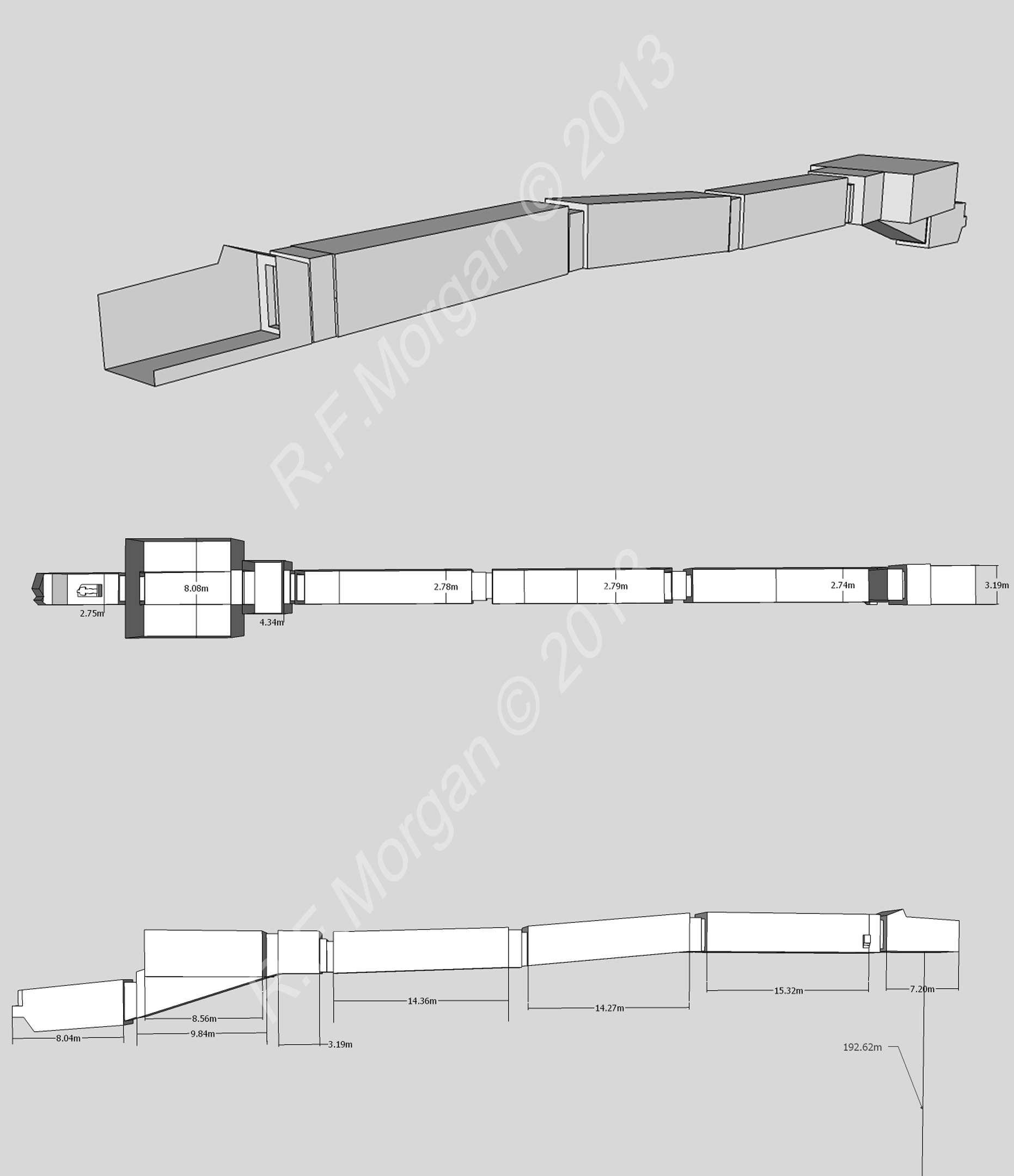 Isometric, plan and elevation images of KV15 taken from a 3d model